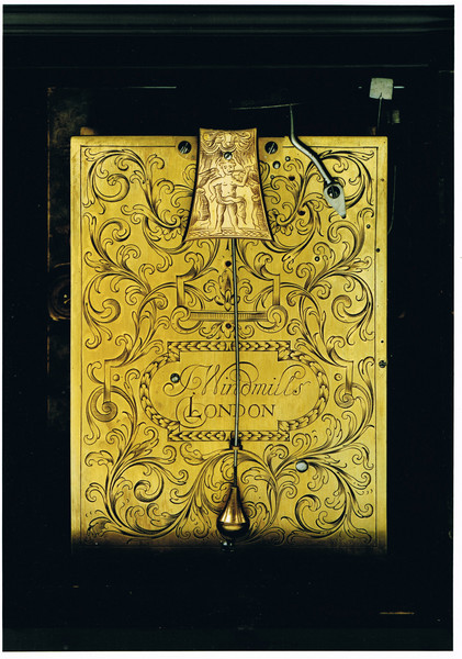 A superb quality ebony table bracket clock by Joseph Windmills, London. The timepiece with verge escapement and pull quarter repeat by this eminent maker. The dial and backplate fully signed